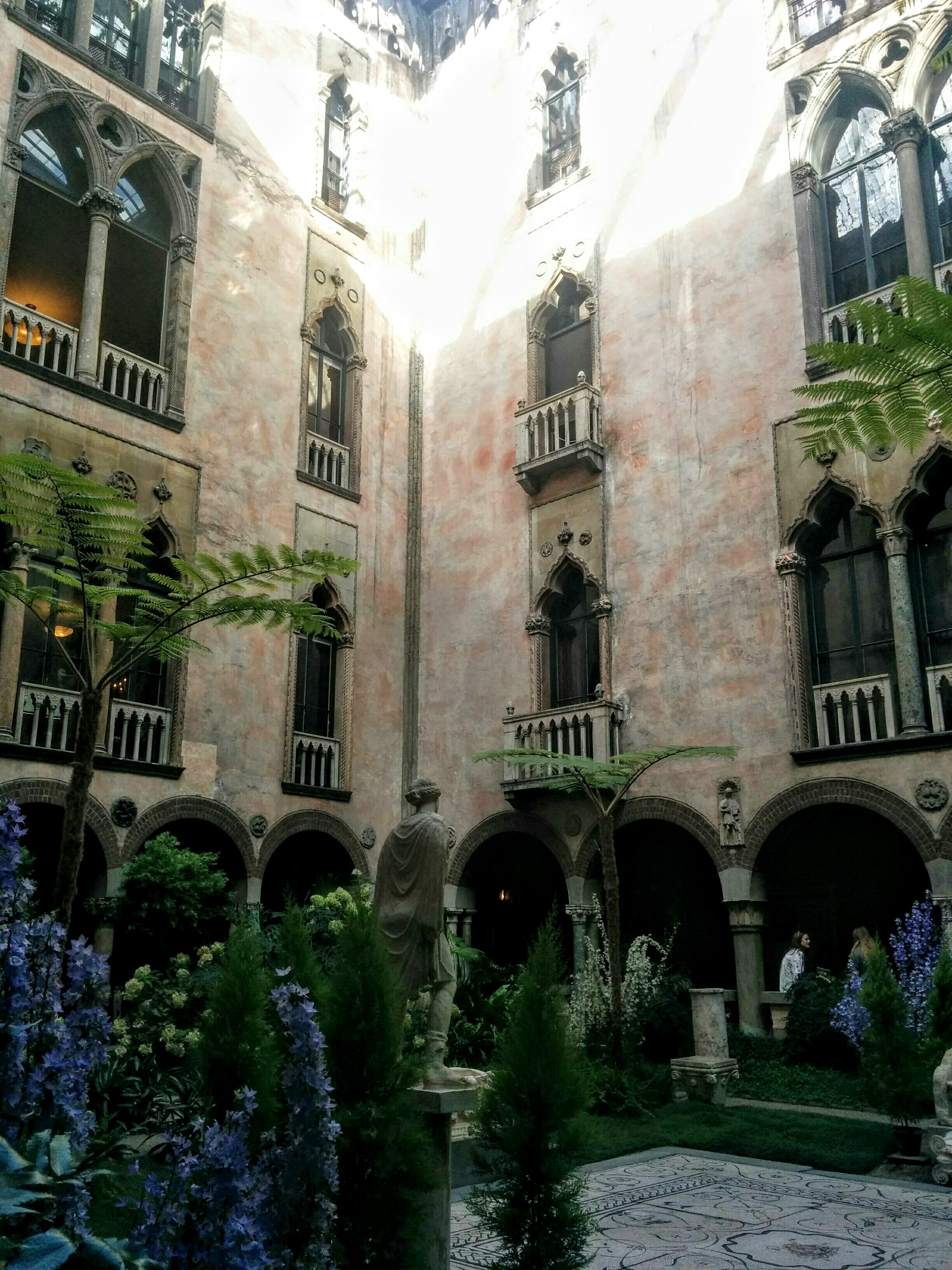 Inner courtyard of the Isabelle Stewart Gardner Museum